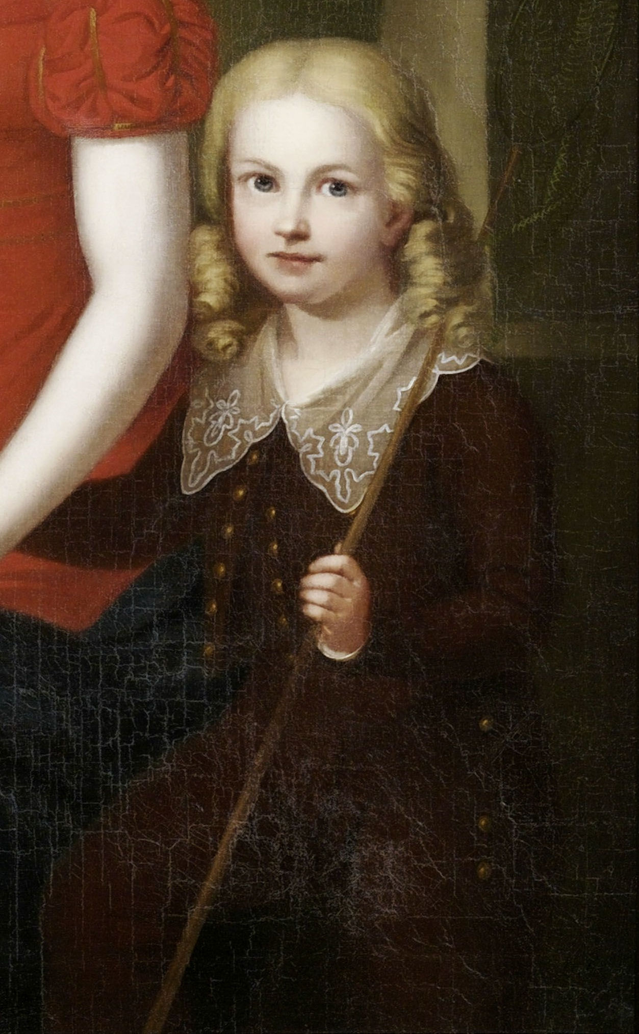 Duke Eugen of Württemberg (1820–1875)